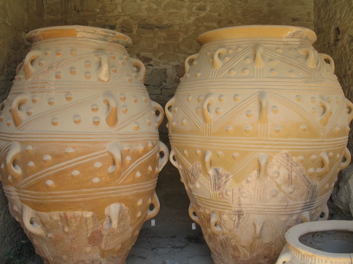 Кносский дворец